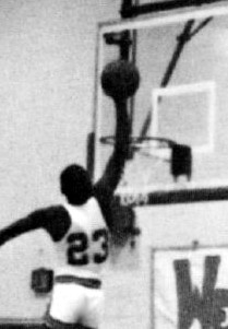 Emsley A. Laney High School junior Michael Jordan pictured performing a slam dunk as a member of the 1979-80 Laney Bucaneers boys' varsity basketball team.